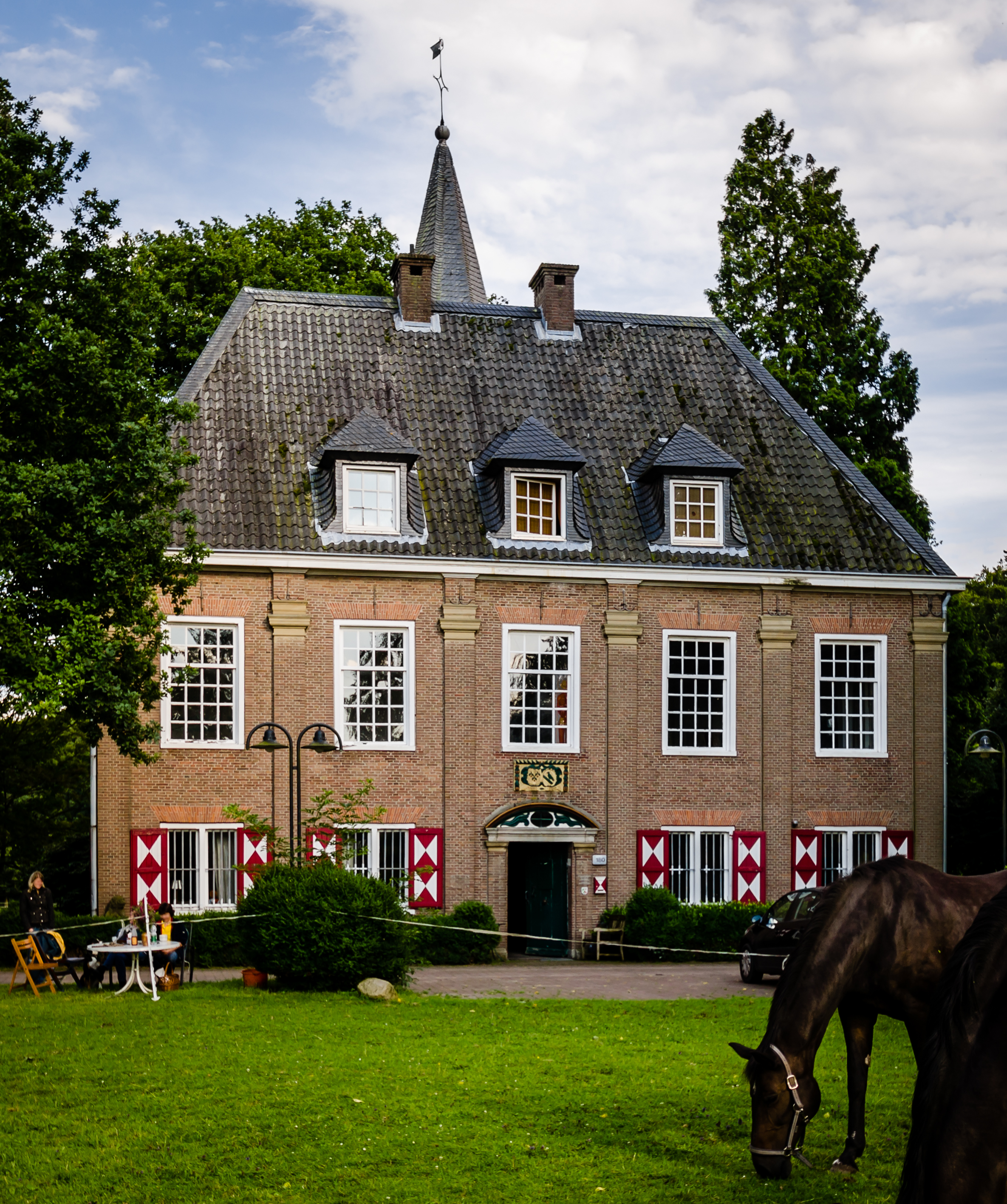 Manor house Borghees